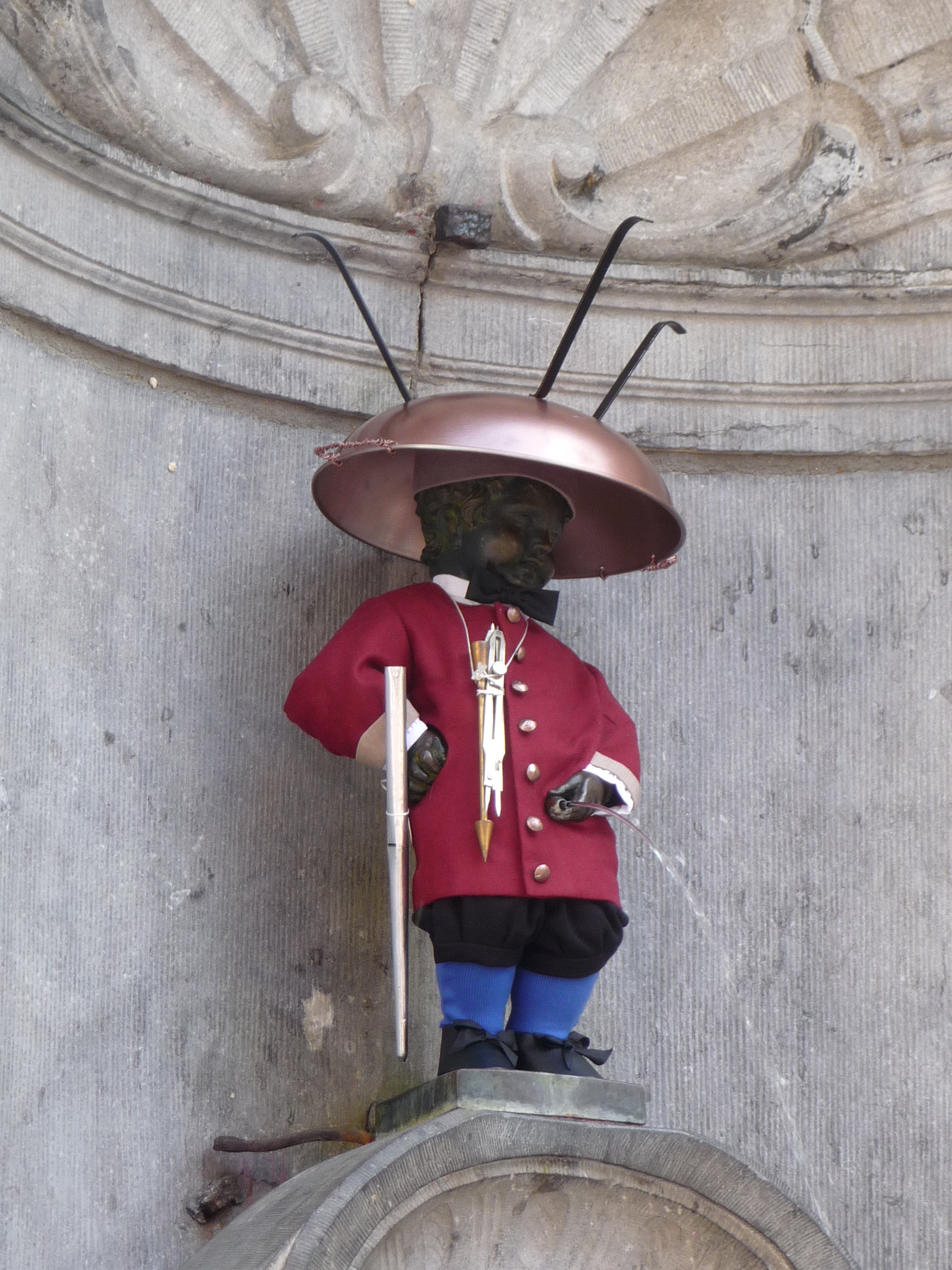 Manneken Pis dressed like a Belgian Organ Builder